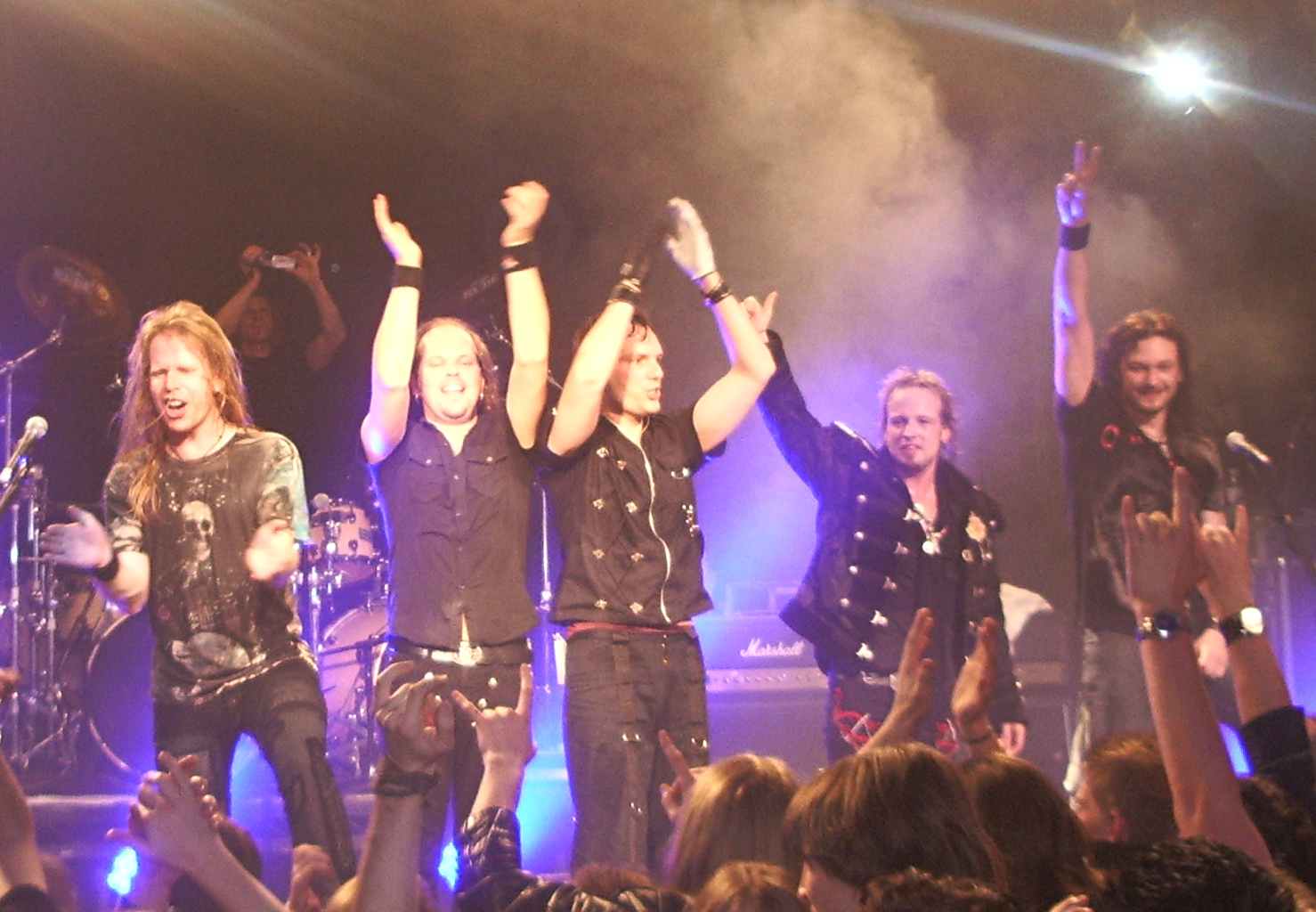 Edguy at Islington Academy in London, 10th January 2009